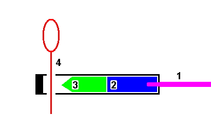 A cutter for skydiving: schematic diagram of the working sequence